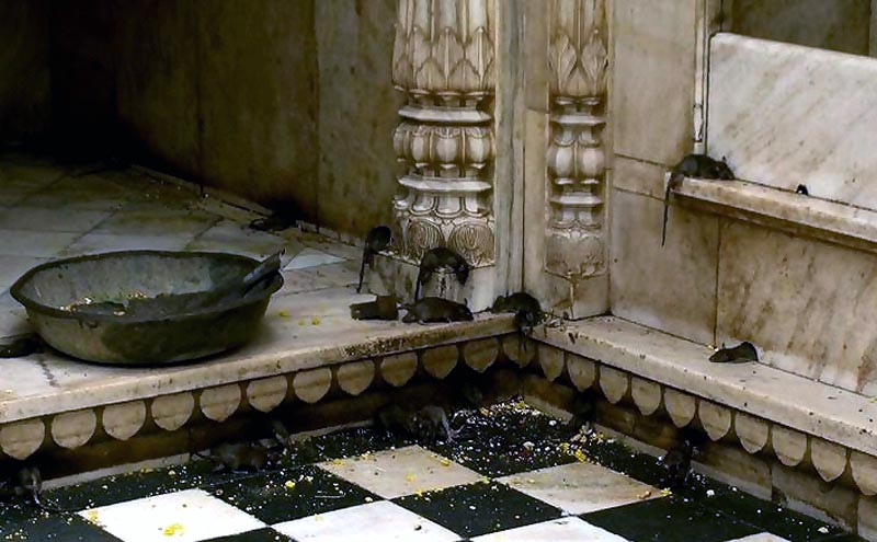 Orginally found at flikr. Photo taken by user 4ocima and enhanced by myself, User:Zappernapper using Adobe Photoshop.